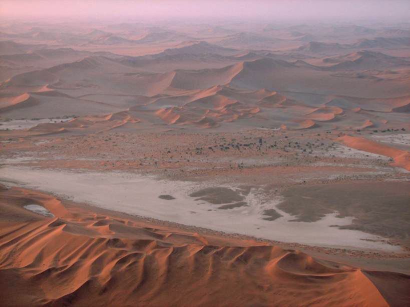 (Scott A. Christy, photographer is part of our group researching for a wiki page on Namibian Communal Wildlife Conservancies)